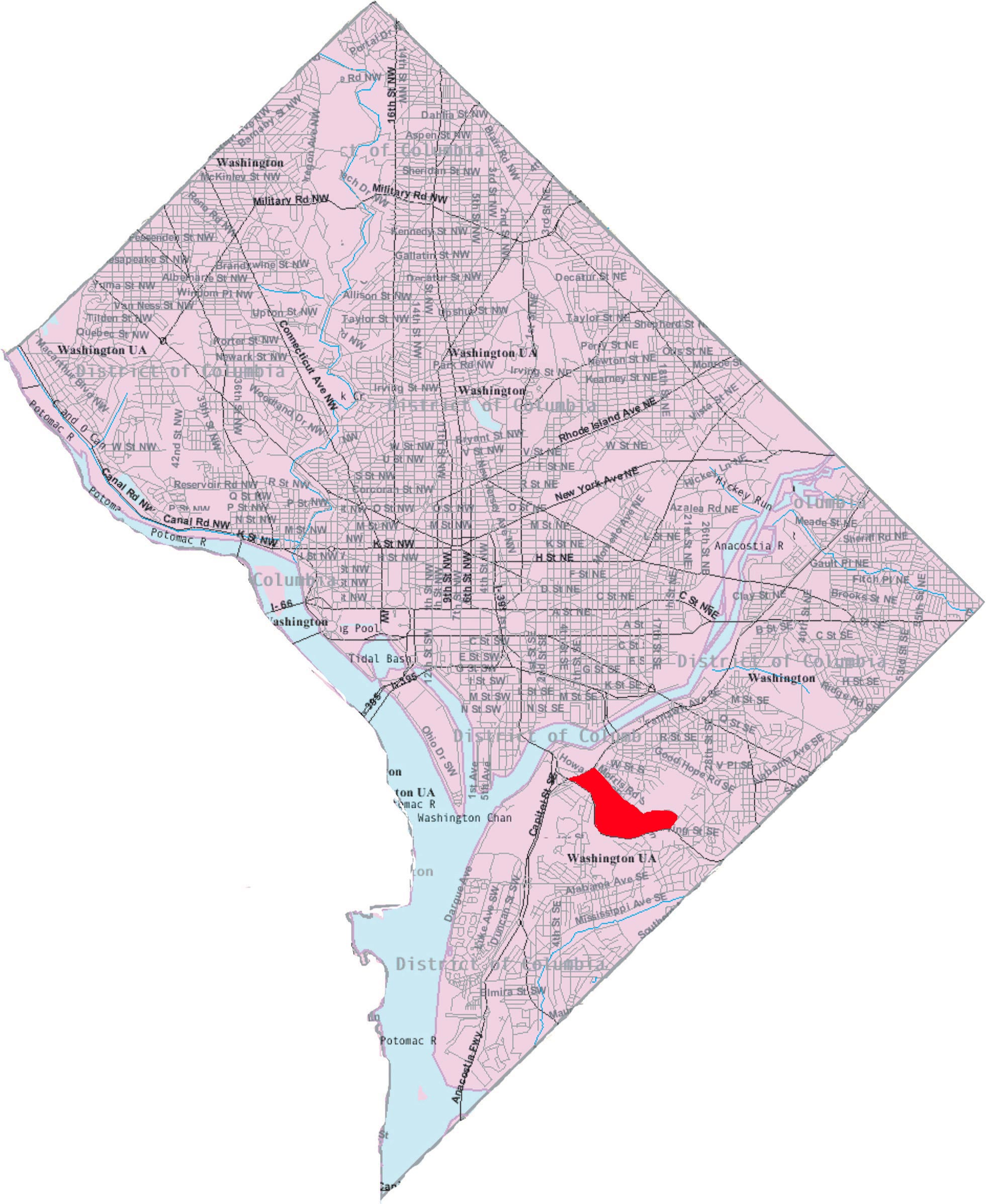 This image is a modified version of a self-generated reference map from the U.S. Census Bureau's American Factfinder at by Wikipedia user Msclguru.